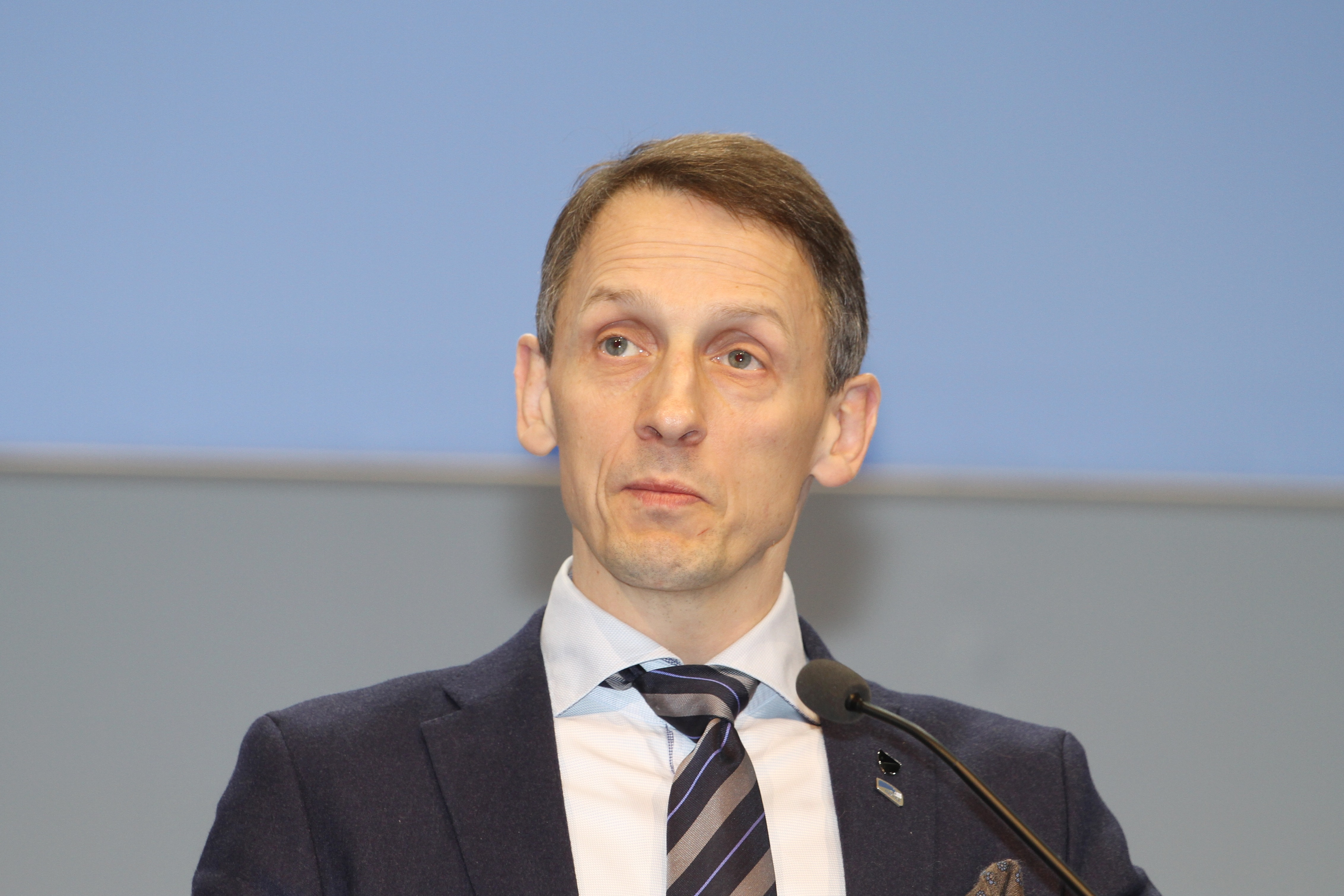 Tom Myrvold